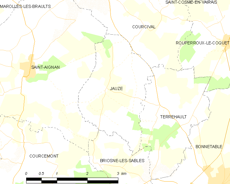 Map of French municipality